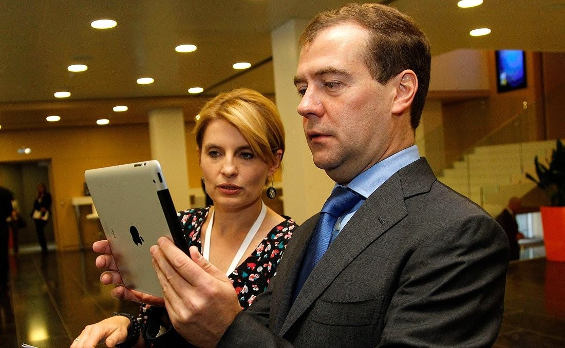 Russia's president Dmitry Medvedev and RIA Novosti editor-in-chief Svetlana Mironyuk